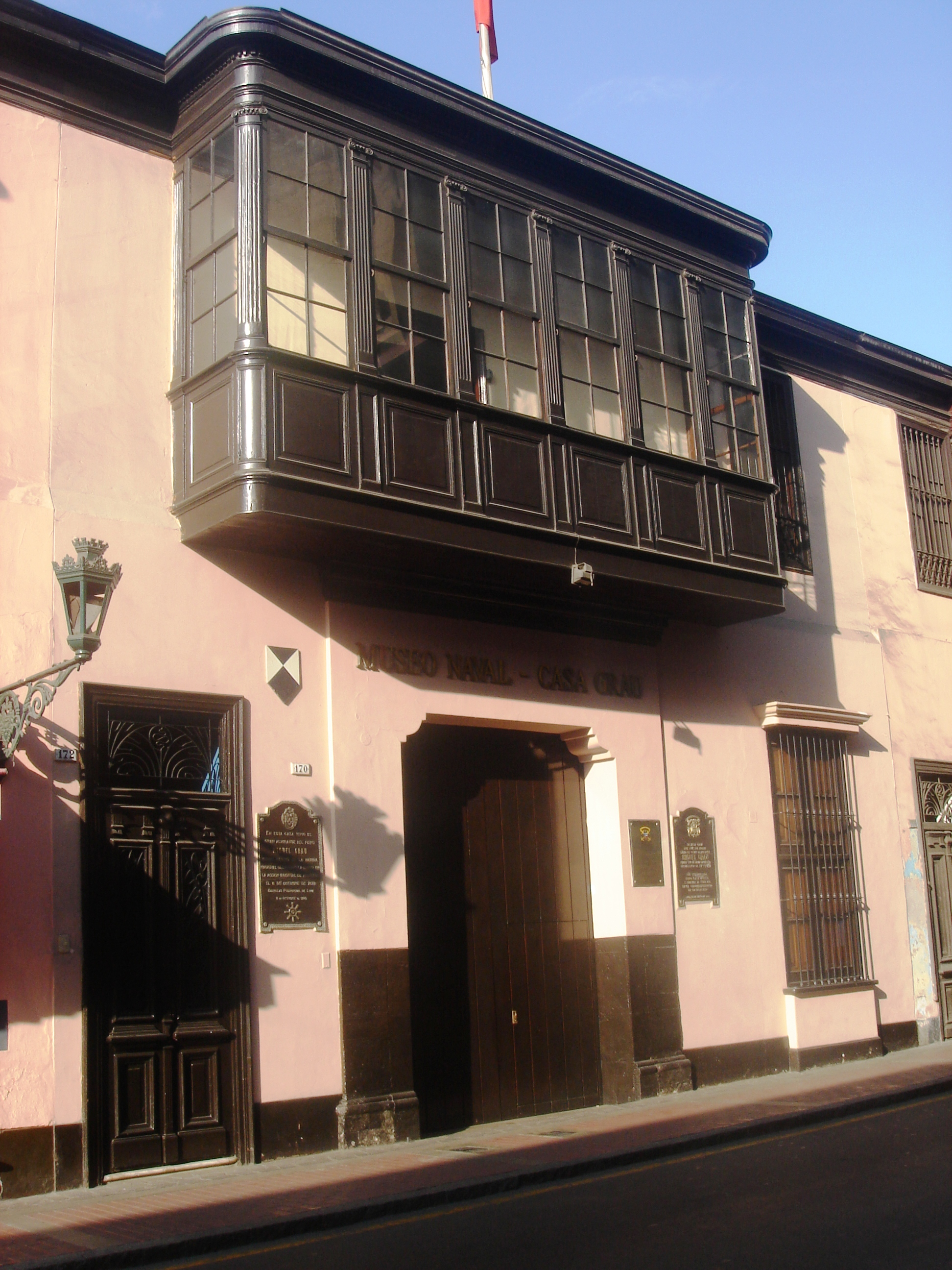 Navy Museum - Grau House, Lima, Peru.